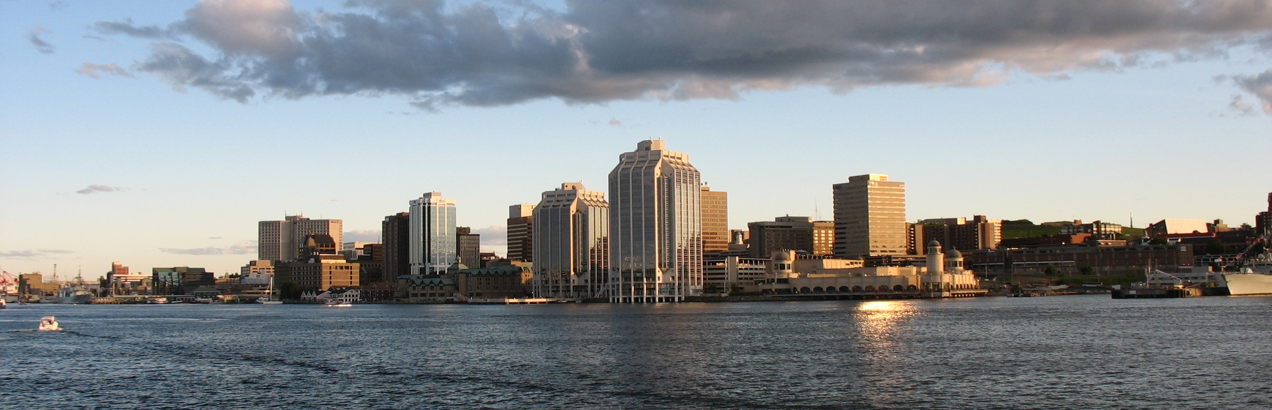 Taken July 1st, 2007 (Canada Day)